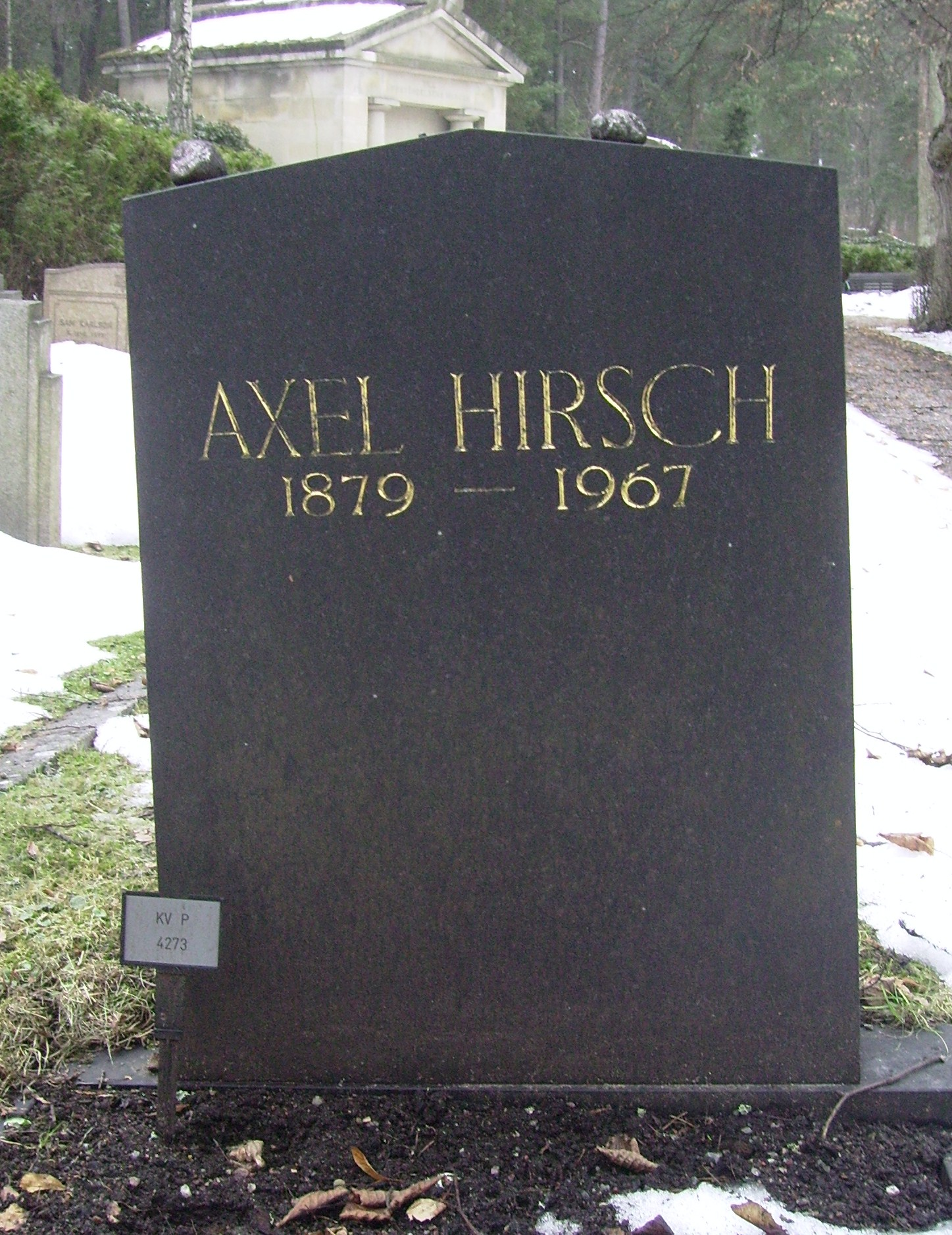 Picture of Axel Hirsch grave at Judiska norra begravningsplatsen in Solna